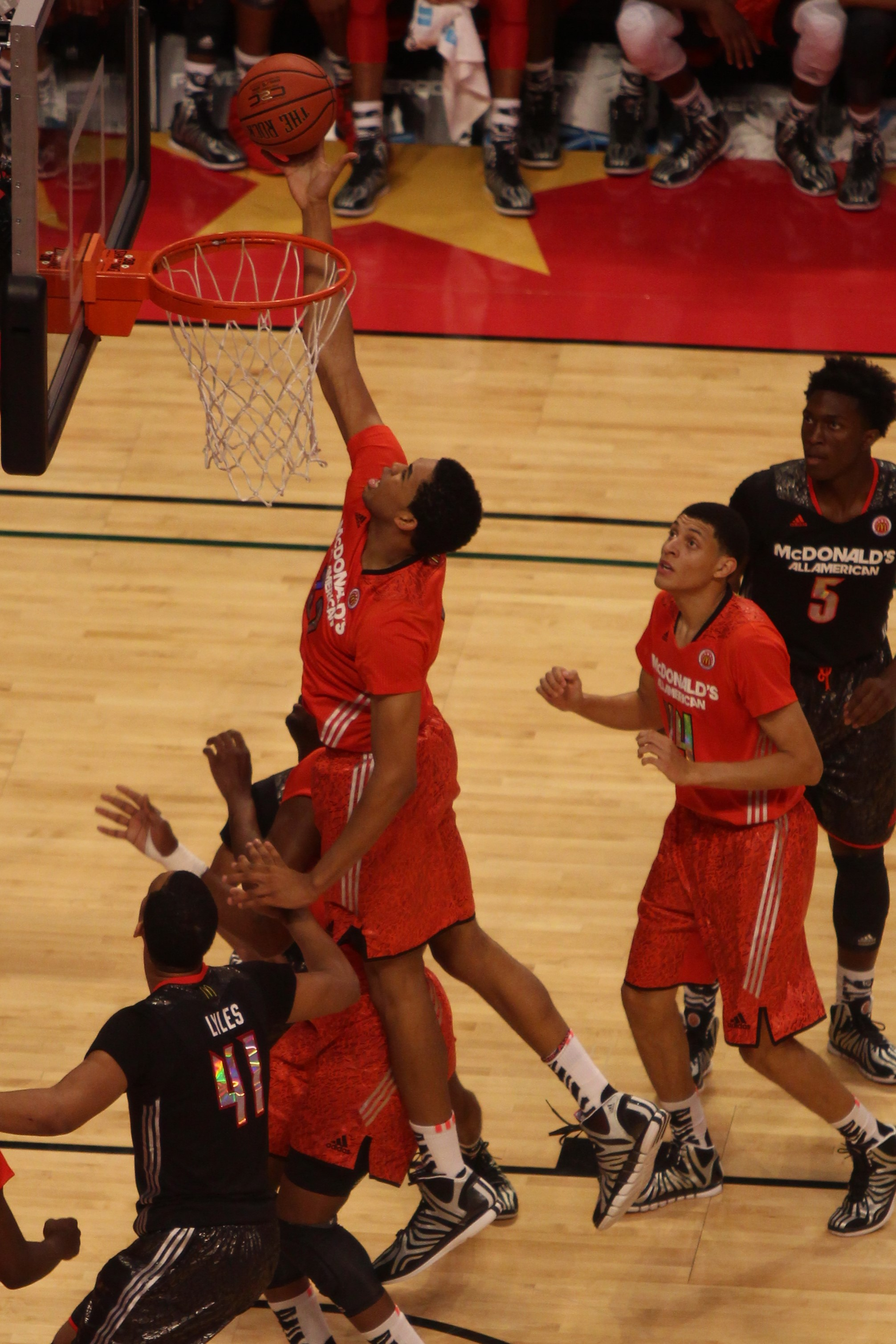 Karl Towns in front of Justin Jackson (#41) and Stanley Johnson (#5) in the w:2014 McDonald's All-American Boys Game